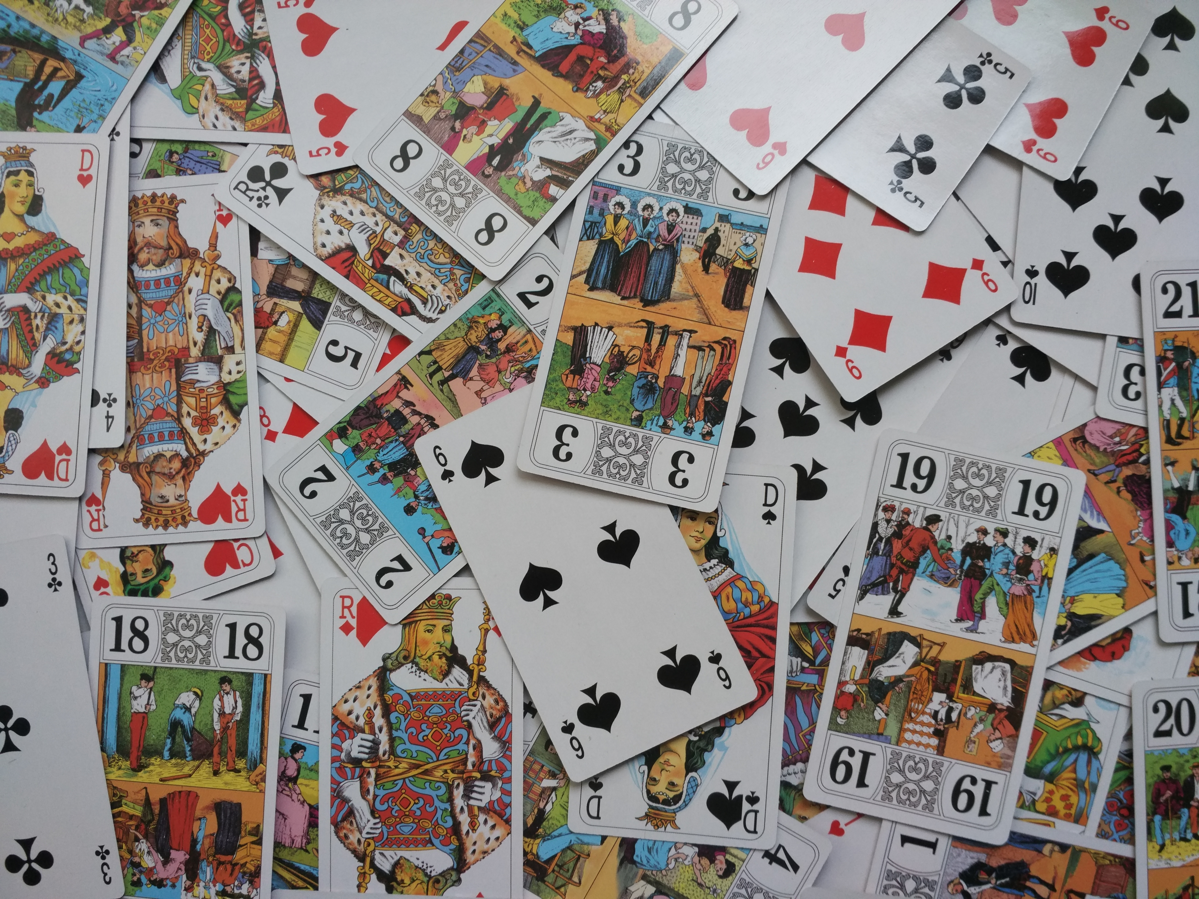 Cards of French Tarot.